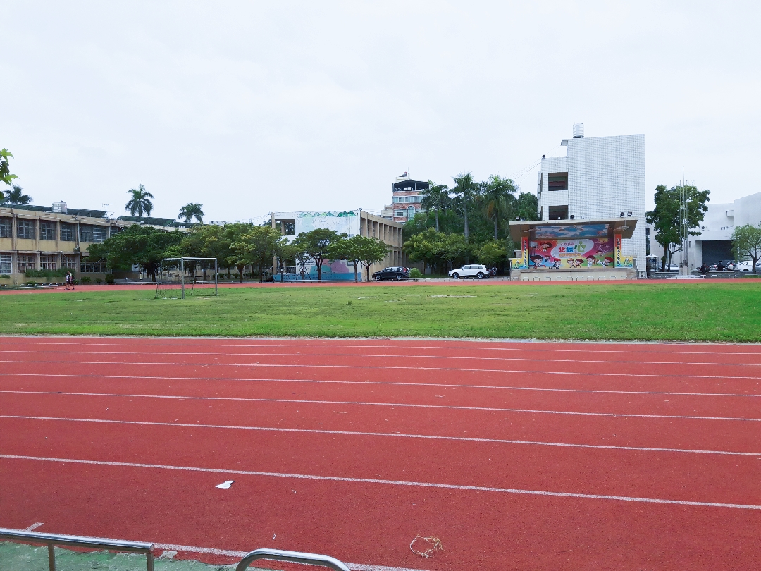 The playground of Beichen Elementary School located in Beigang Township, Yunlin County of Taiwan.